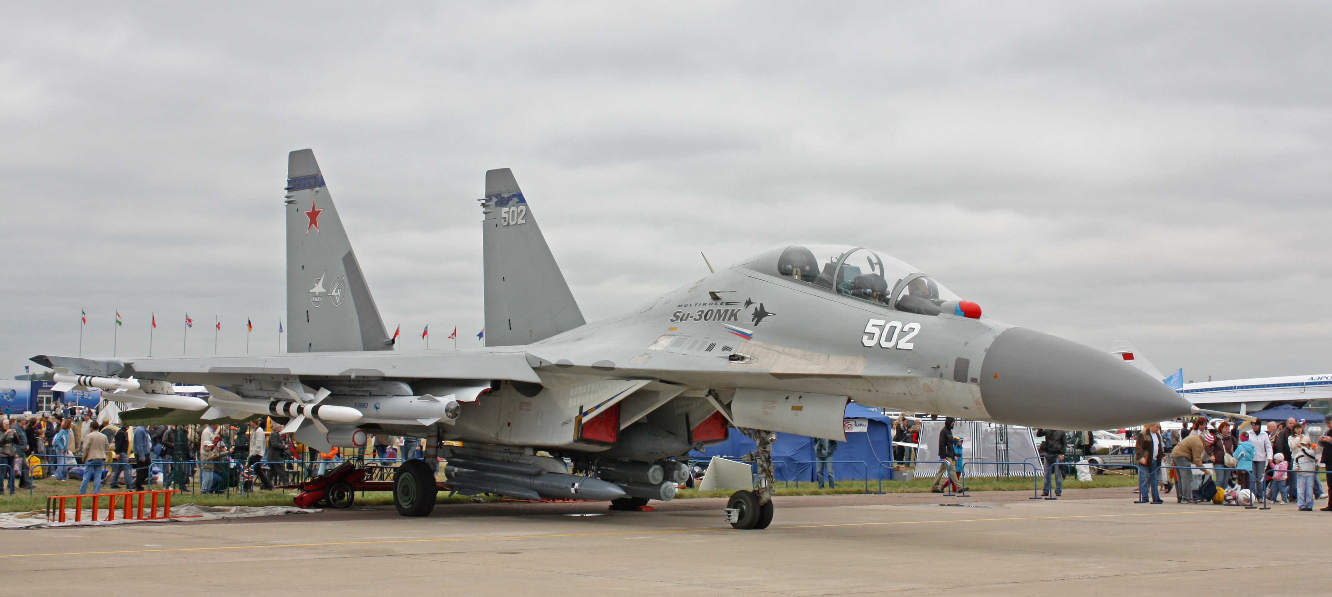 Sukhoi Su-30MK (The international aerospace salon MAKS-2009)